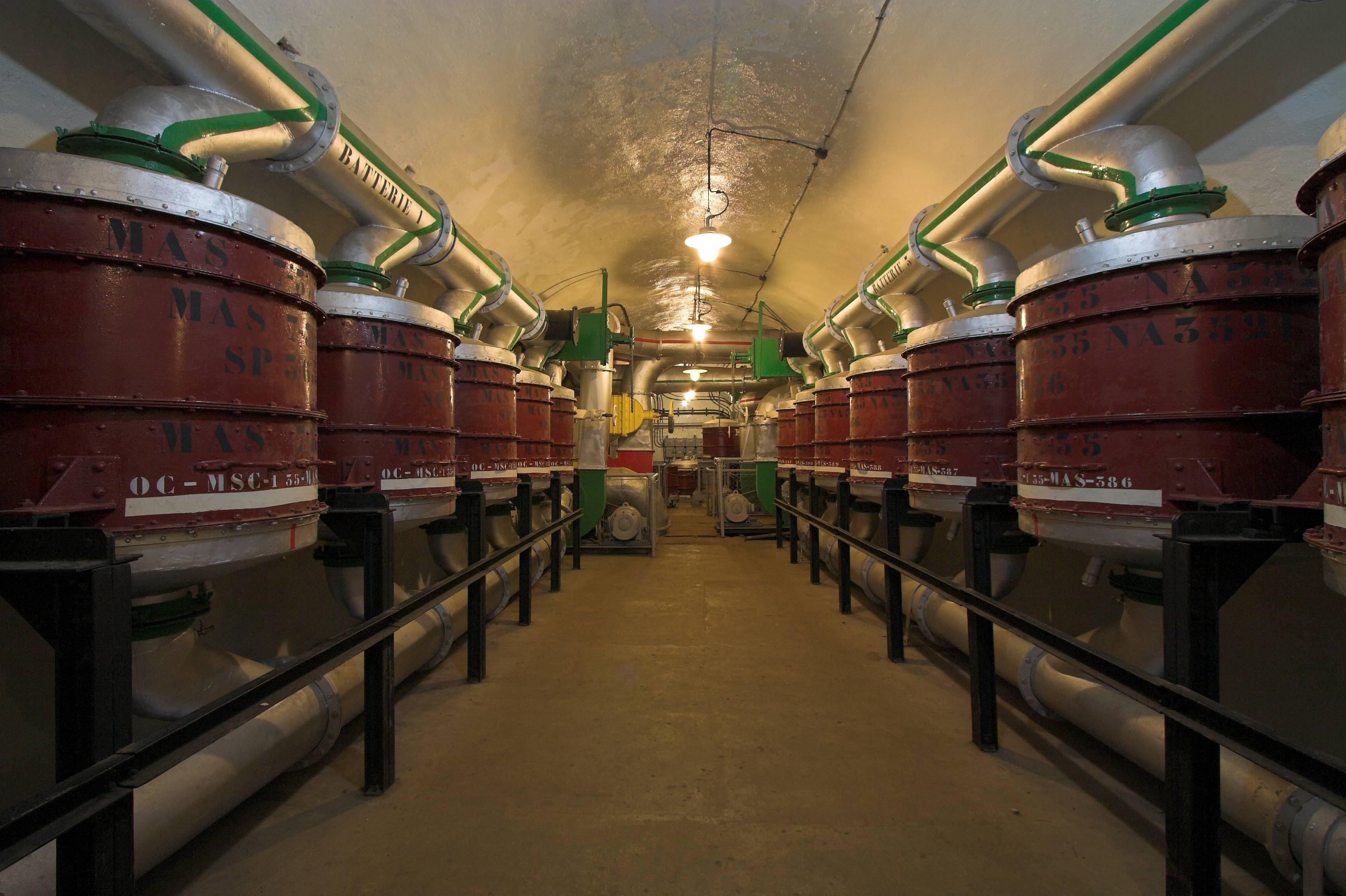 an air-filter room in the Fort Shoenenbourg(Schoenenbourg, France)